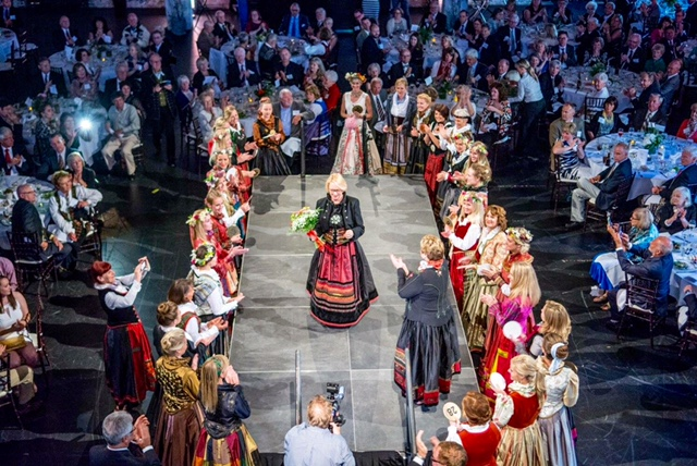 Opening of Norway House, Minneapolis. Catwalk. The designer Lise Skjåk Bræk in the middle, surrounded by 30 models in costumes designed by her.